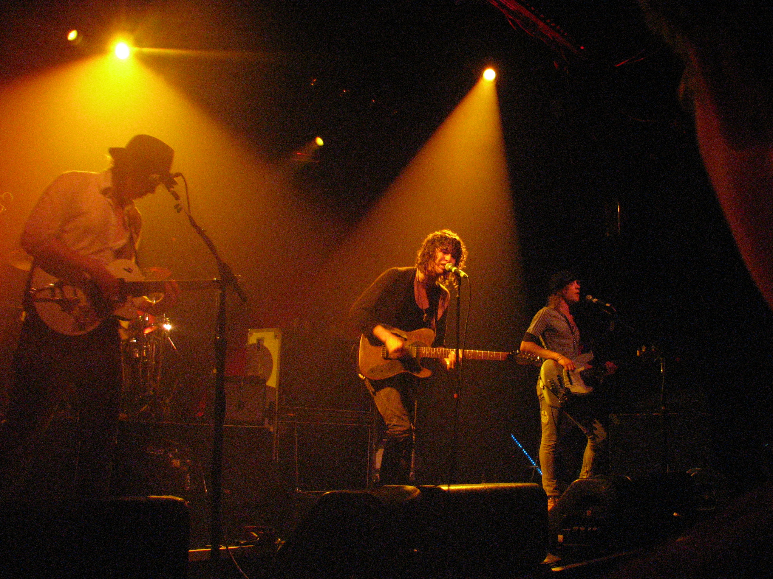 Blog Entry on the show